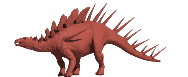 Kentrosaurus digital clay reconstruction